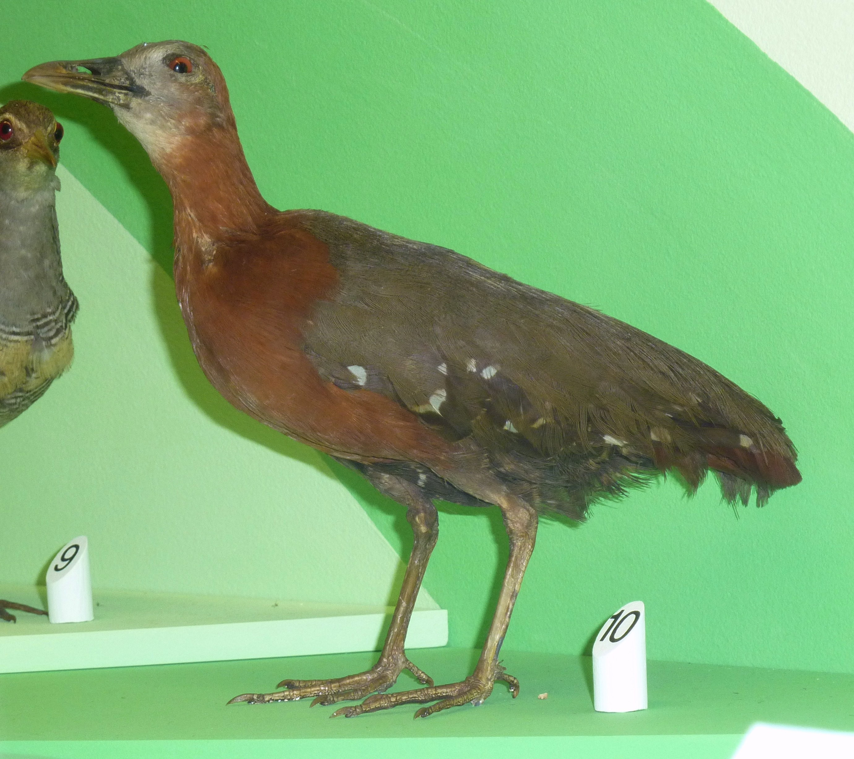 Grey-throated Rail (Canirallus oculeus)